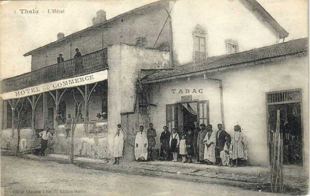 Hotel in Thala - Tunisia - during French period